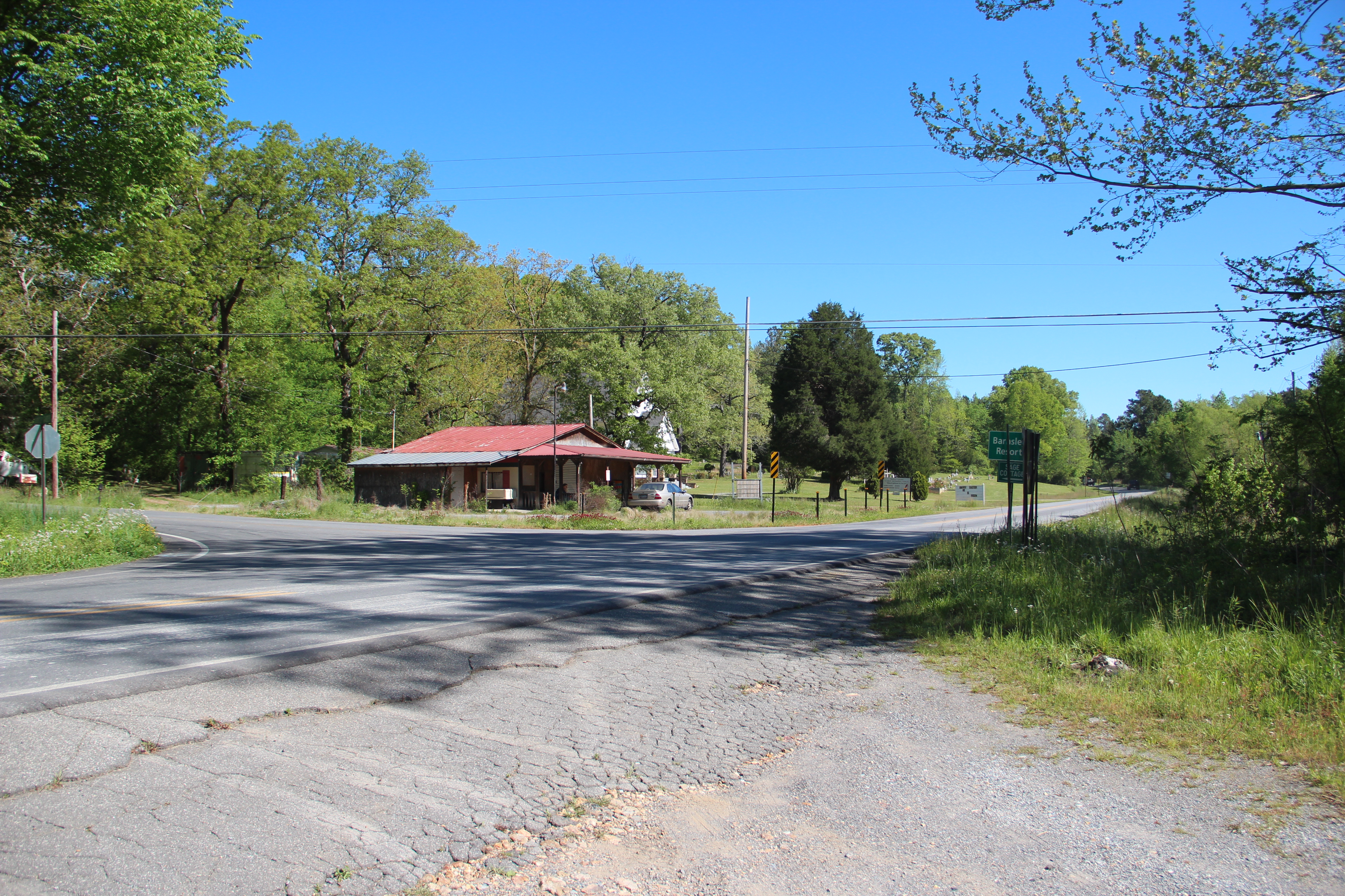 Hall Station Road and Barsley Gardens Road, Bartow County, GA